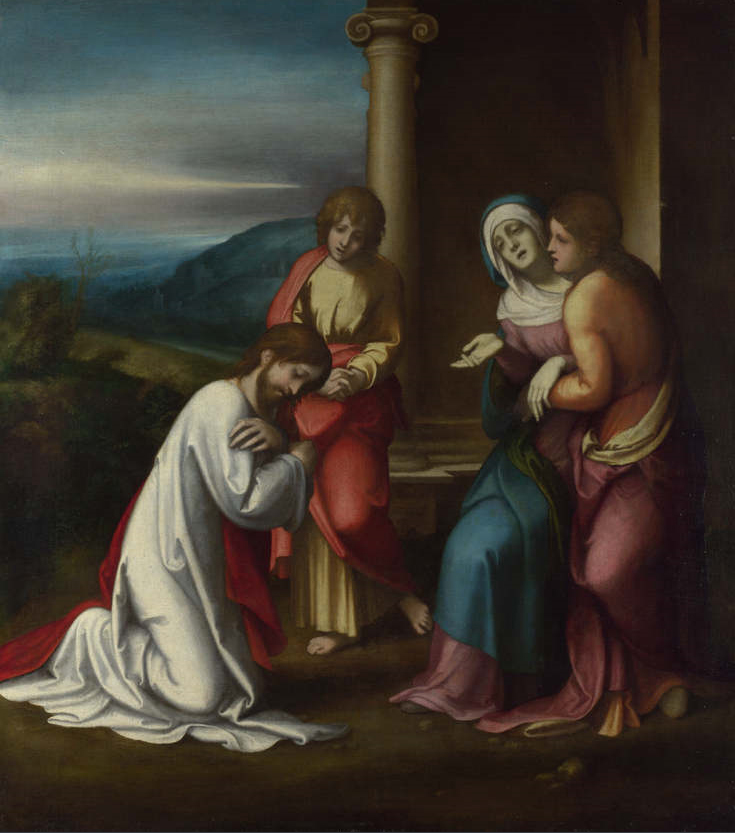 Behind Christus is Saint John Evangelis, Mary is supported by one of the Three Maries (Three Maries discovered Christ's empty tomb Matthew 28:1-8; Mark 16:1-8; Luke 24: 1-11; John 20: 1-19); rare motif in Italian Renaissance painting contrary to German art